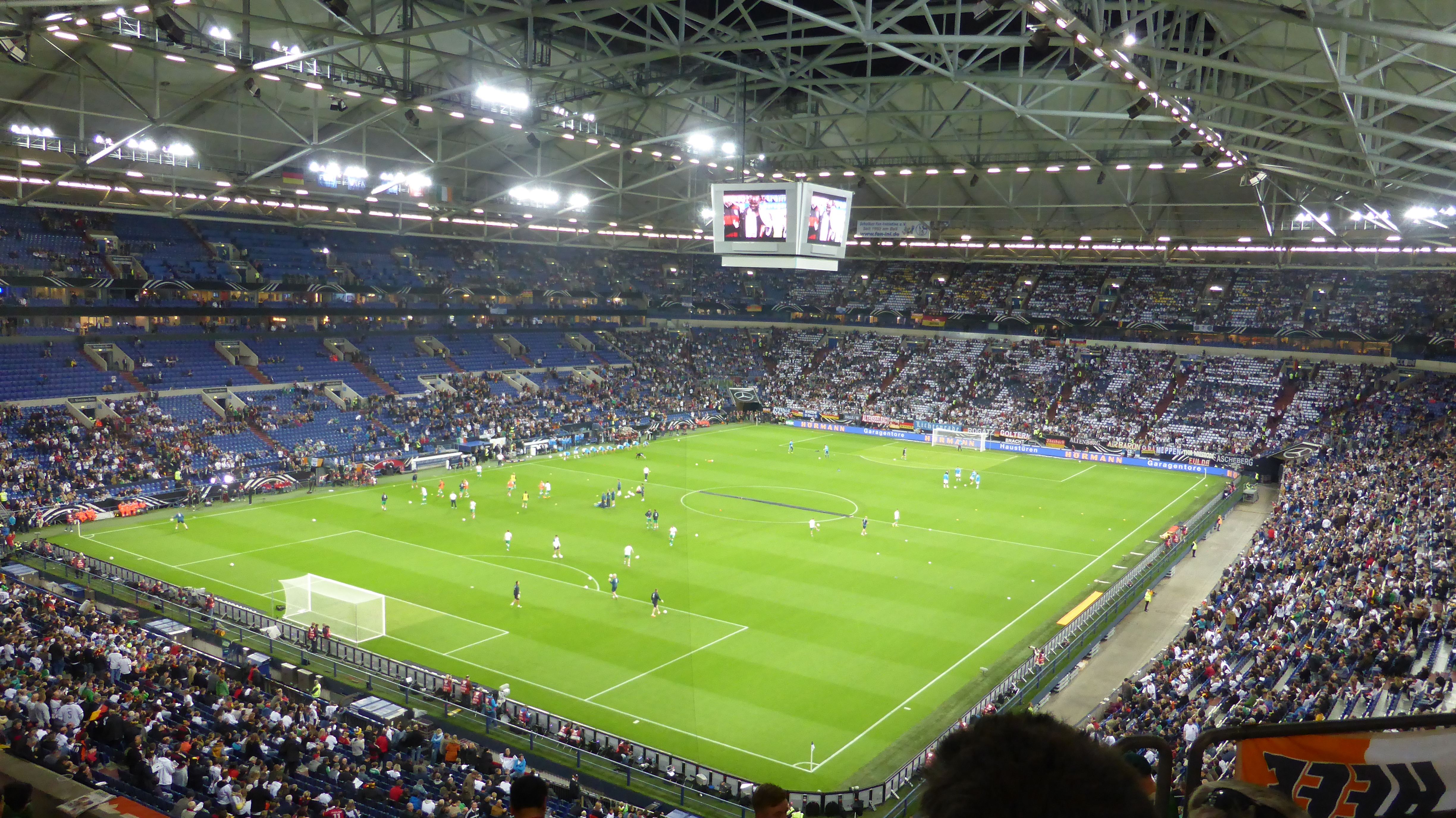 Germany -v- Ireland in the Veltins-Arena, Gelsenkirchen... the match finished 1-1.